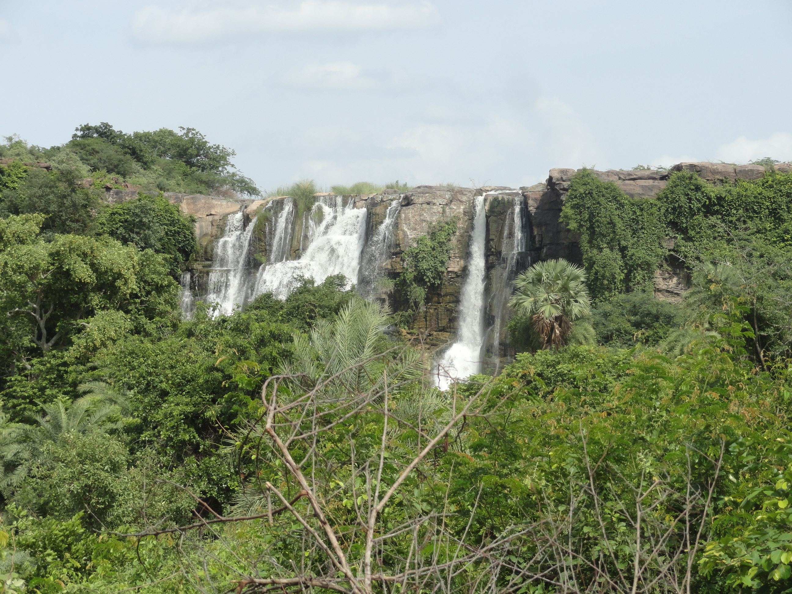 ఎత్తి పోతల జల పాతం వద్ద......దృశ్యం....5